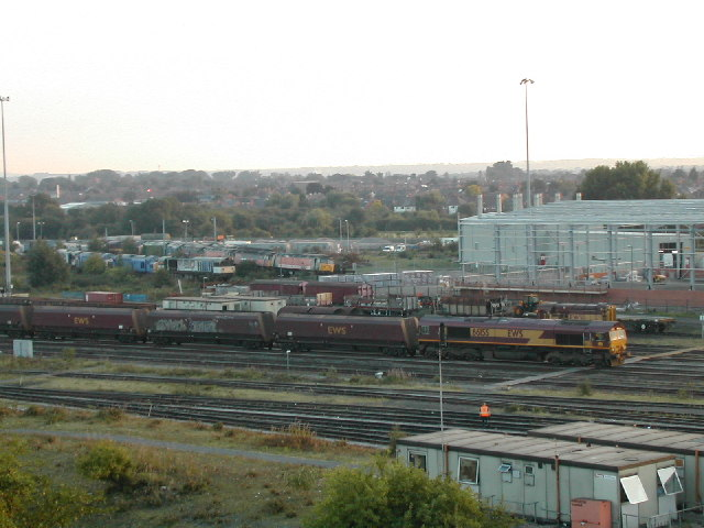 Toton Sidings. Trains at Toton sidings, picture taken from approximately SK 487 354